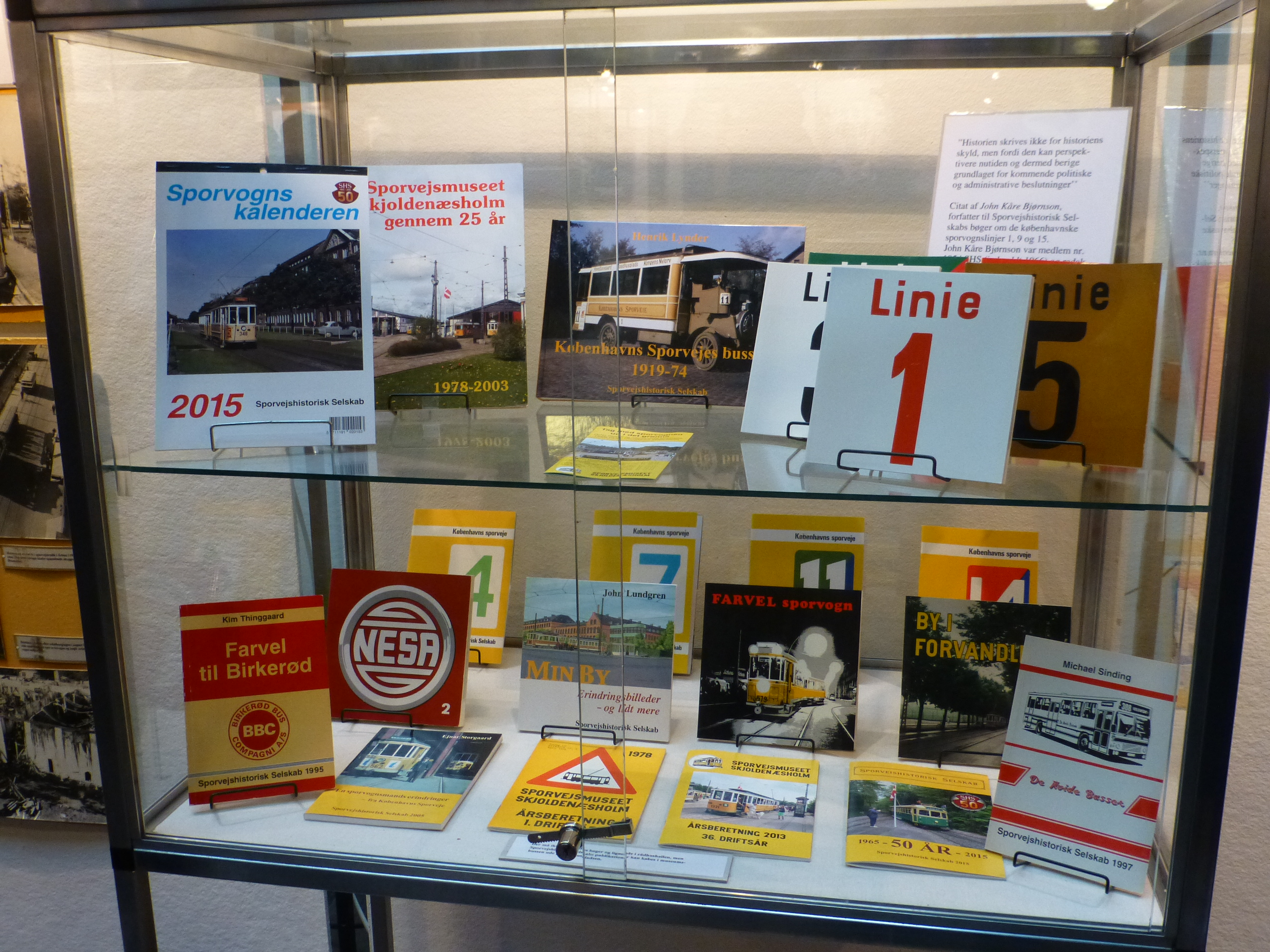 Opening day of the 50 years anniversary exhibition of the Danish tramway society, Sporvejshistorisk Selskab, in the town hall of Copenhagen. Various books and other publications from Sporvejshistorisk Selskab.